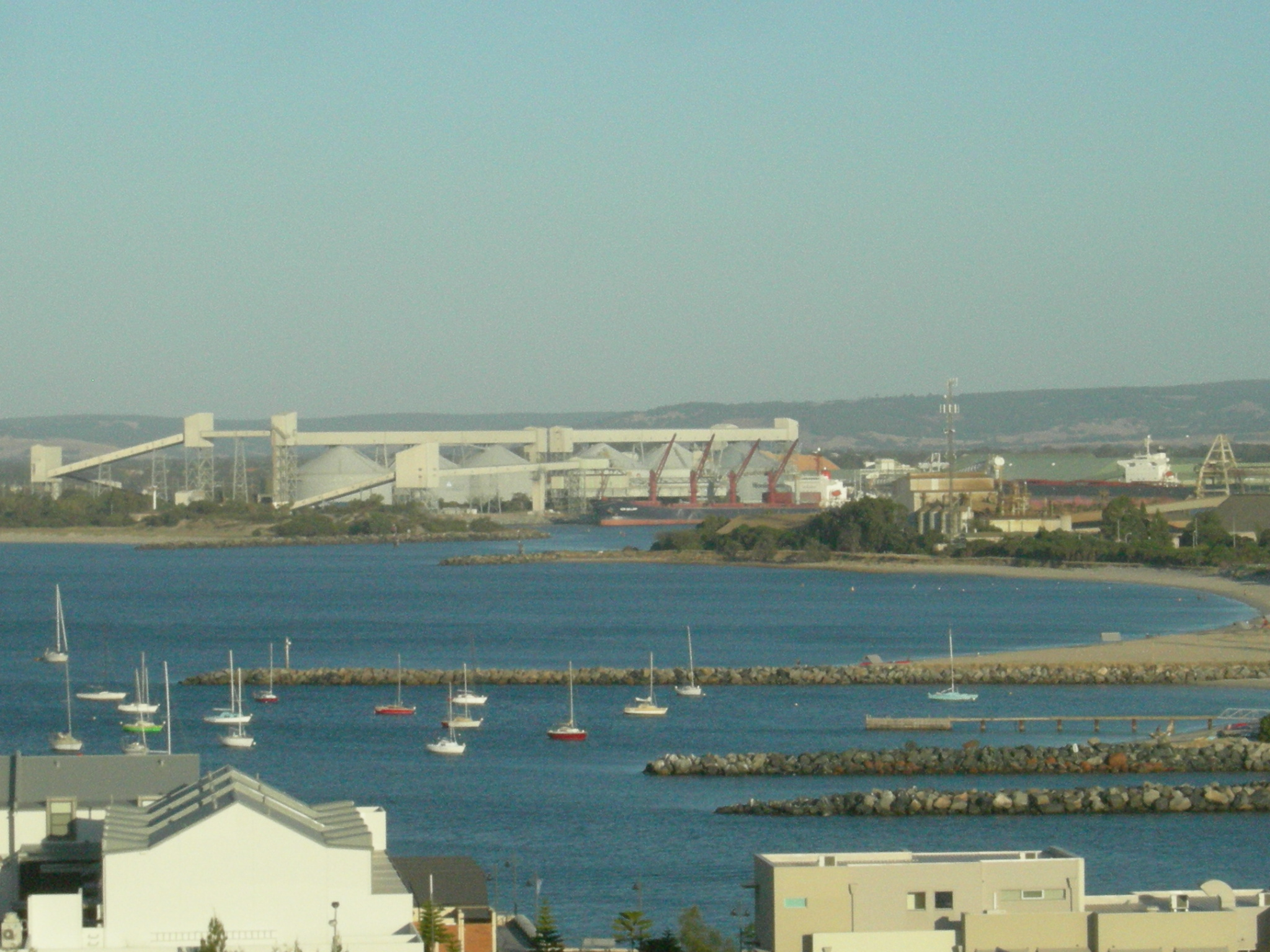 Taken from hill in centre of Bunbury town